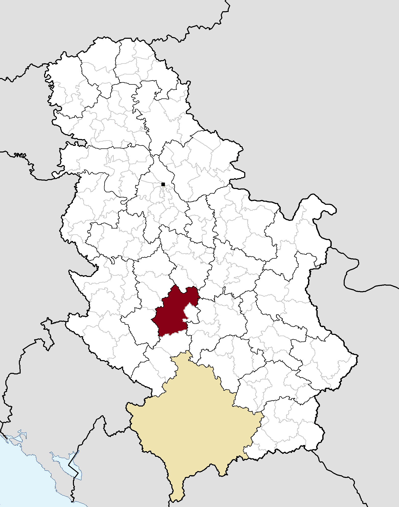 Municipal location in Serbia